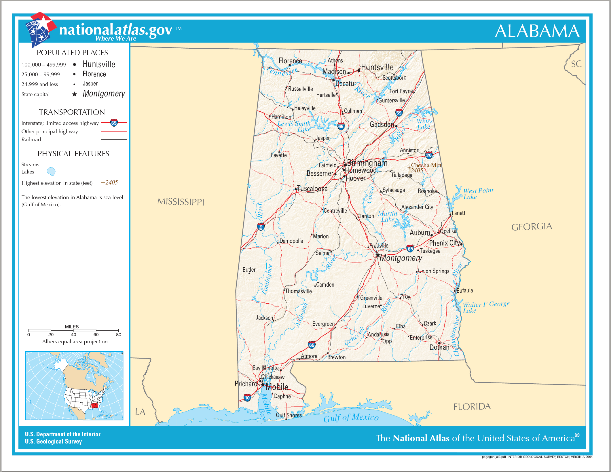 Map of the U.S. state of Alabama, with full legend area, copied from the National Atlas of the United States in high resolution form (1.61 megabytes).